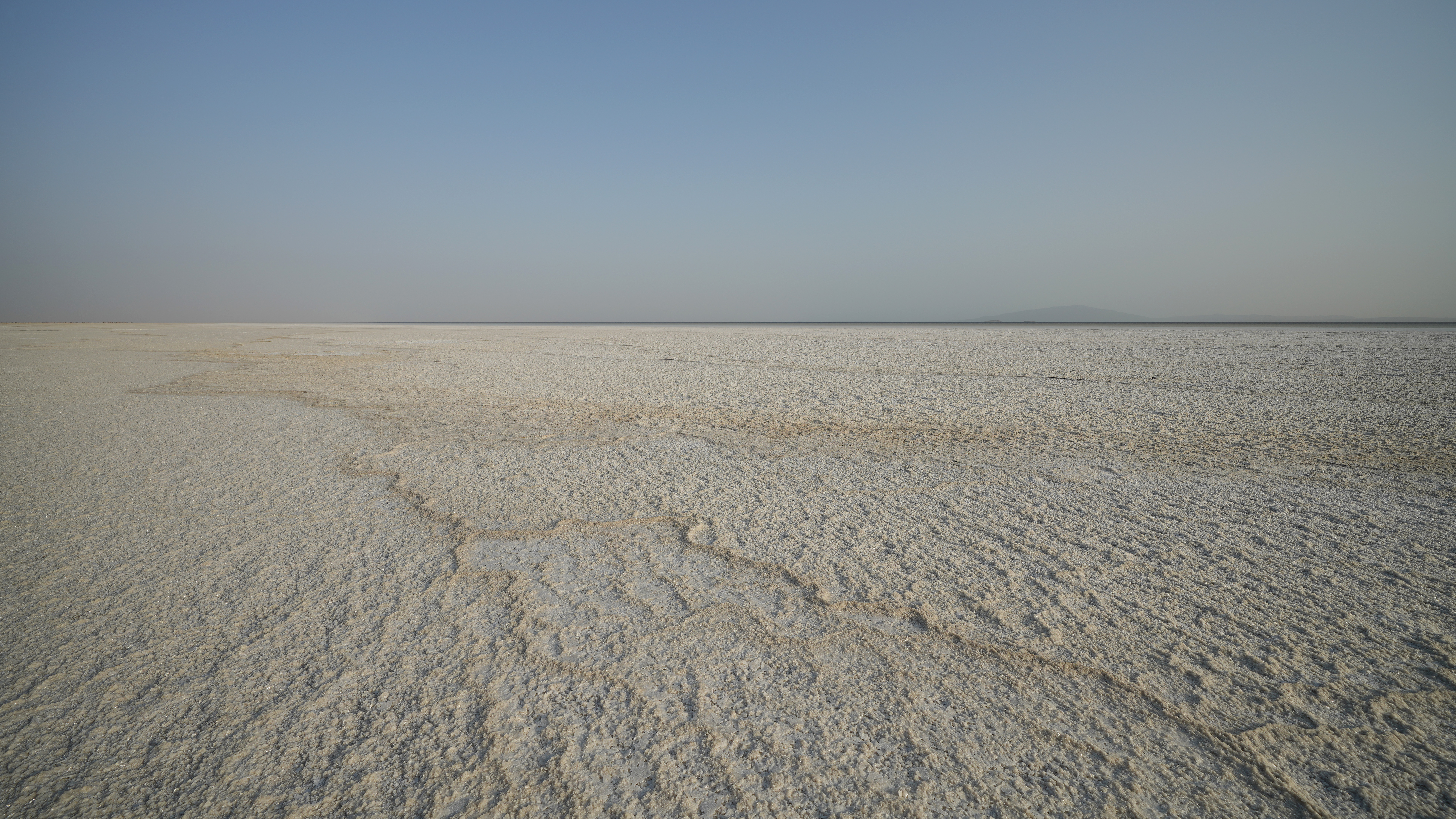 Salt desert at Lake Karum, Afar Region, Ethiopia